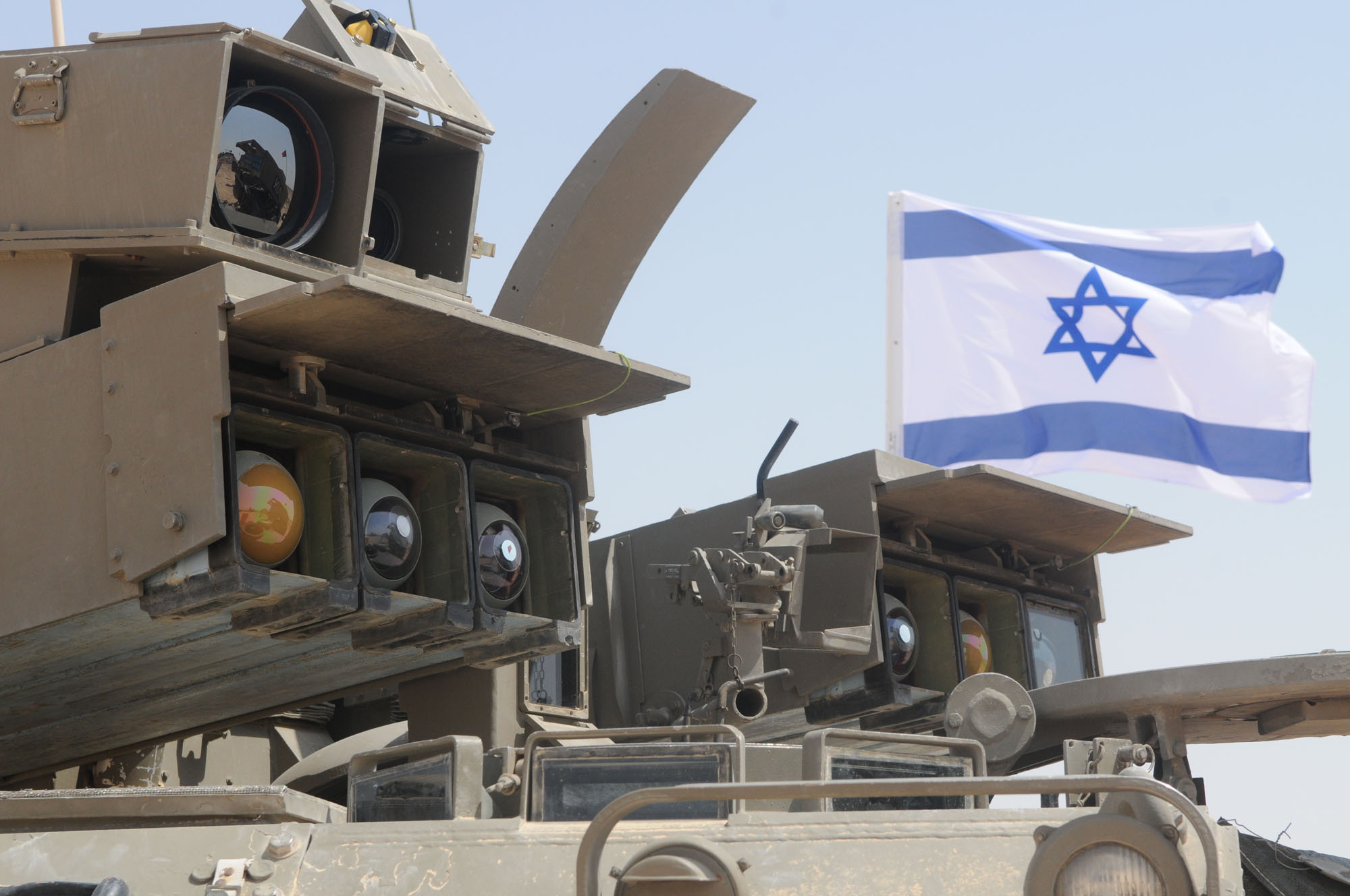 The Israel Defense Forces Facebook • blog • Twitter